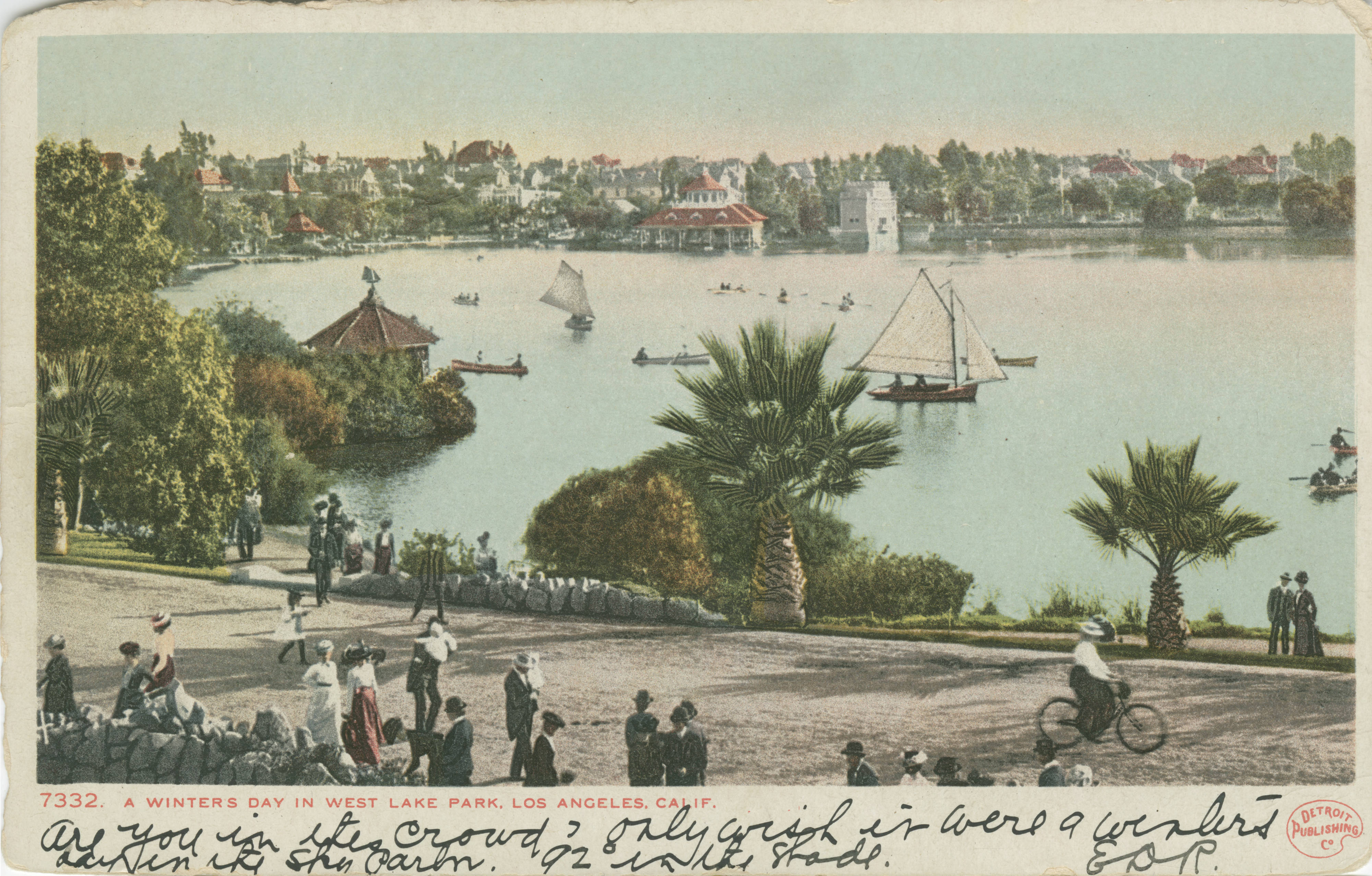 A daytime view of Westlake Park, looking out across the lake. In the foreground, visitors stroll or bicycle along the road, and several small boats are out on the lake. There is a small gazebo on the nearer shore, and a larger boathouse on the farther shore.